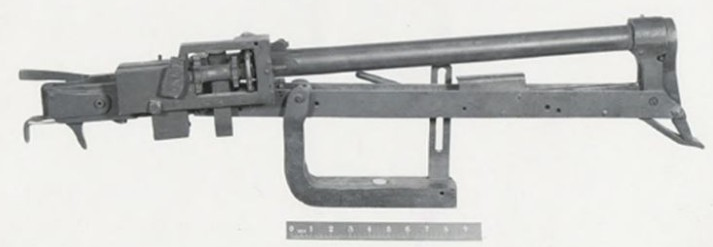 The first gas operated machine gun, a hand made model by John M. Browning, known as the "gas flapper". This gun was conceived and developed around 1889-90, caliber .44/40 W.C.F., offered to the Colt Firearms Manufacturing Company in 1890.